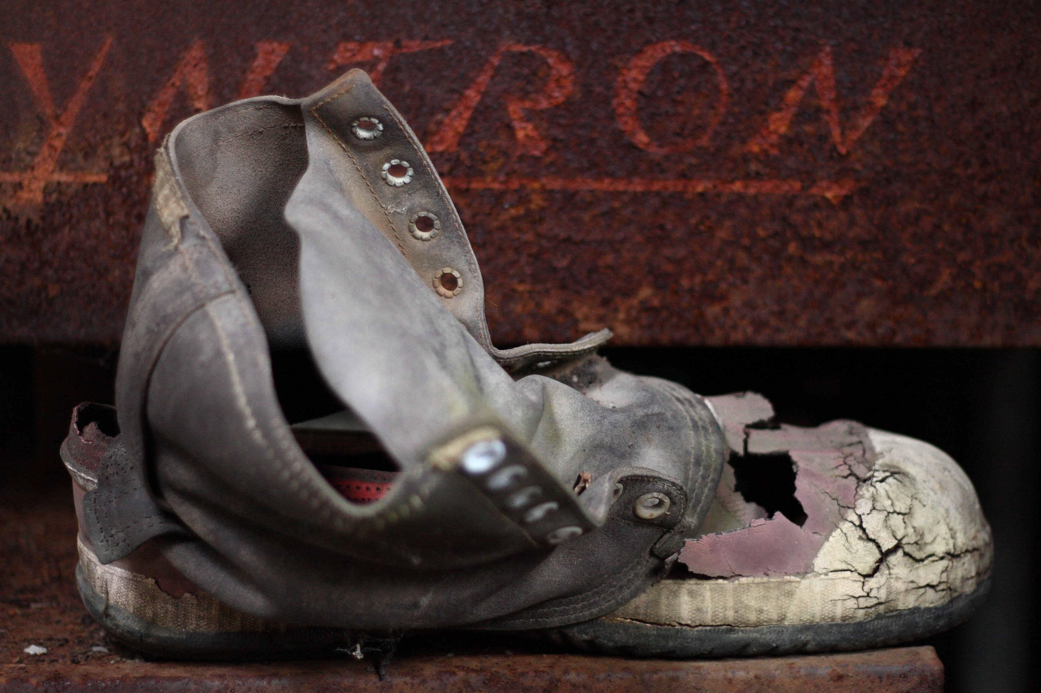 A neglected old boot, demonstrating extensive wear and tear from age and exposure to the elements. Found in a rotting, abandoned control booth at a quarry near Farmington, Connecticut.